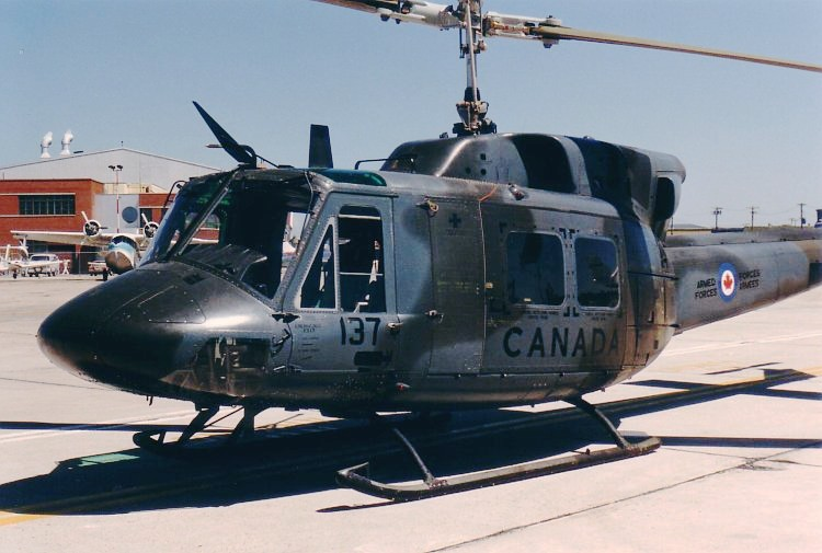 CH-135 Twin Huey 135137 in the original blue-gray and green camouflage pattern worn by these aircraft prior to 1986/88. I took this photo of a Canadian Forces CH-135 Twin Huey helicopter at CFB Winnipeg in 1987